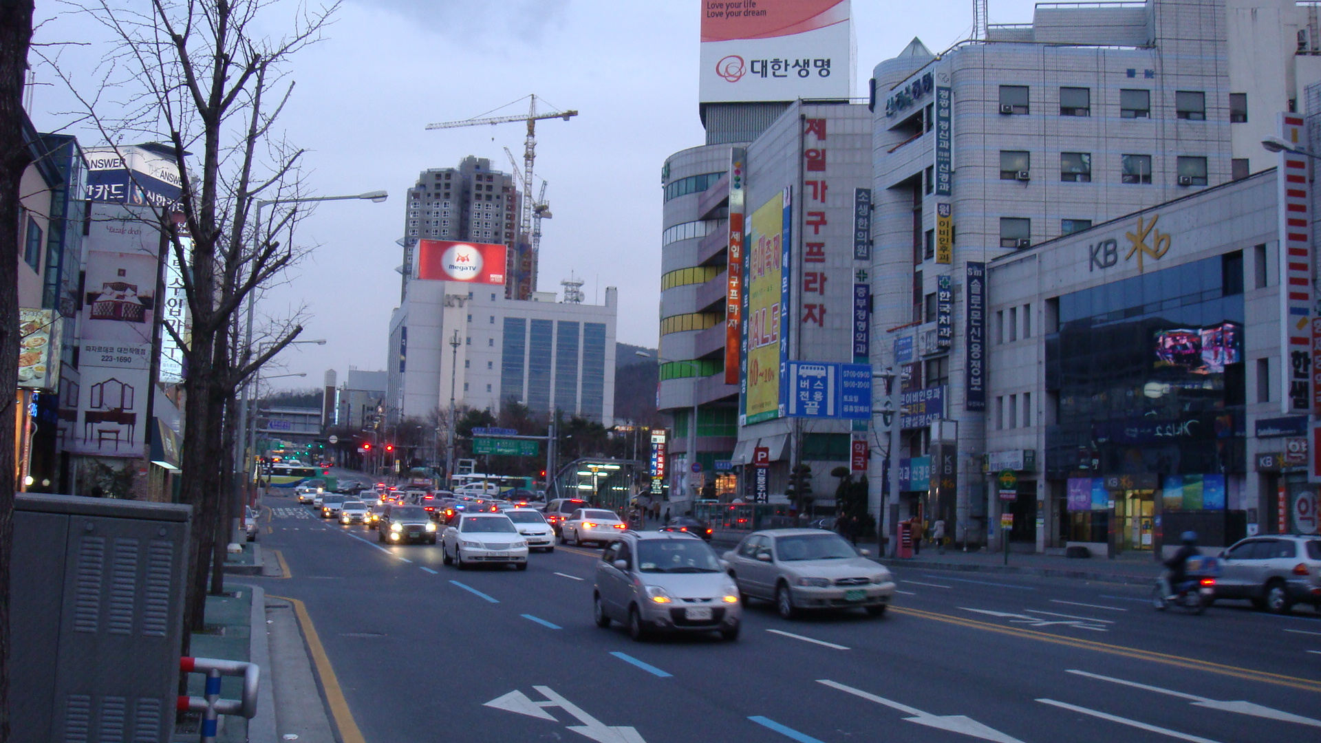 thanks to the Commonist